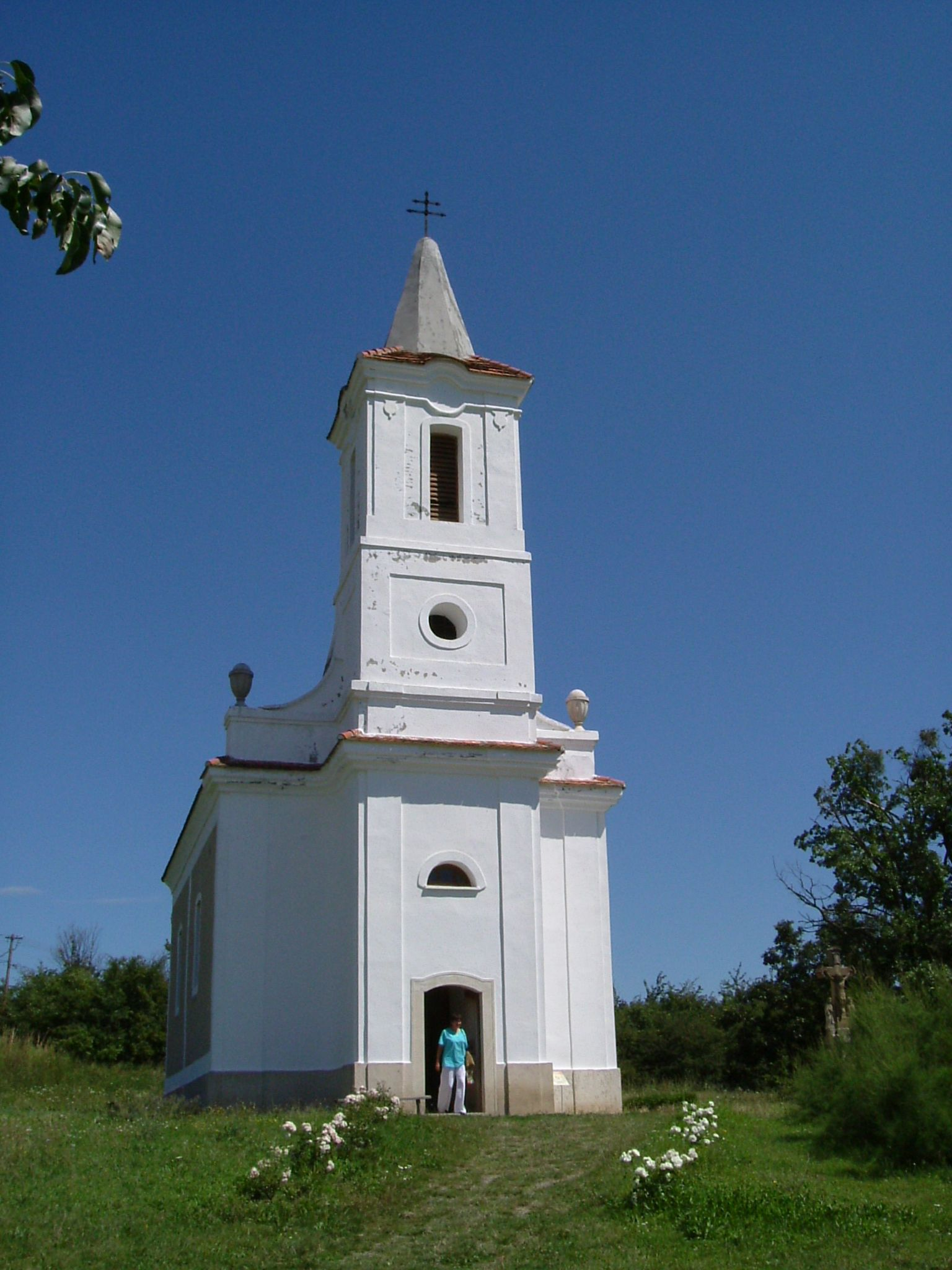 Catholic church, Óbudavár, Hungary